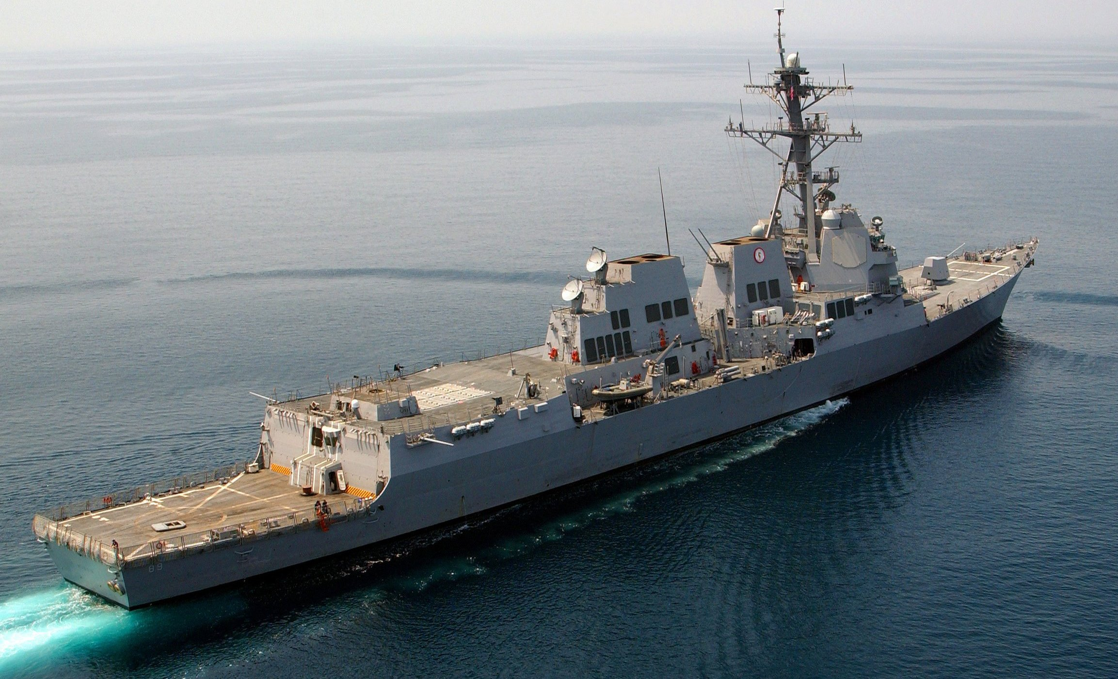 An aerial starboard stern view of the U.S. Navy (USN) Arleigh Burke-class guided missile destroyer, USS MUSTIN (DDG-89) as it is underway in the Persian Gulf conducting Maritime Security Operations (MSO), with the Nimitz-class aircraft carrier, USS CARL VINSON (CVN-70) Carrier Strike Group (CSG), in support of the Global War on Terrorism (GWOT). Released to Public. I.D.: DNSD0613054. Service Depicted: Navy. 050413N5526M020.